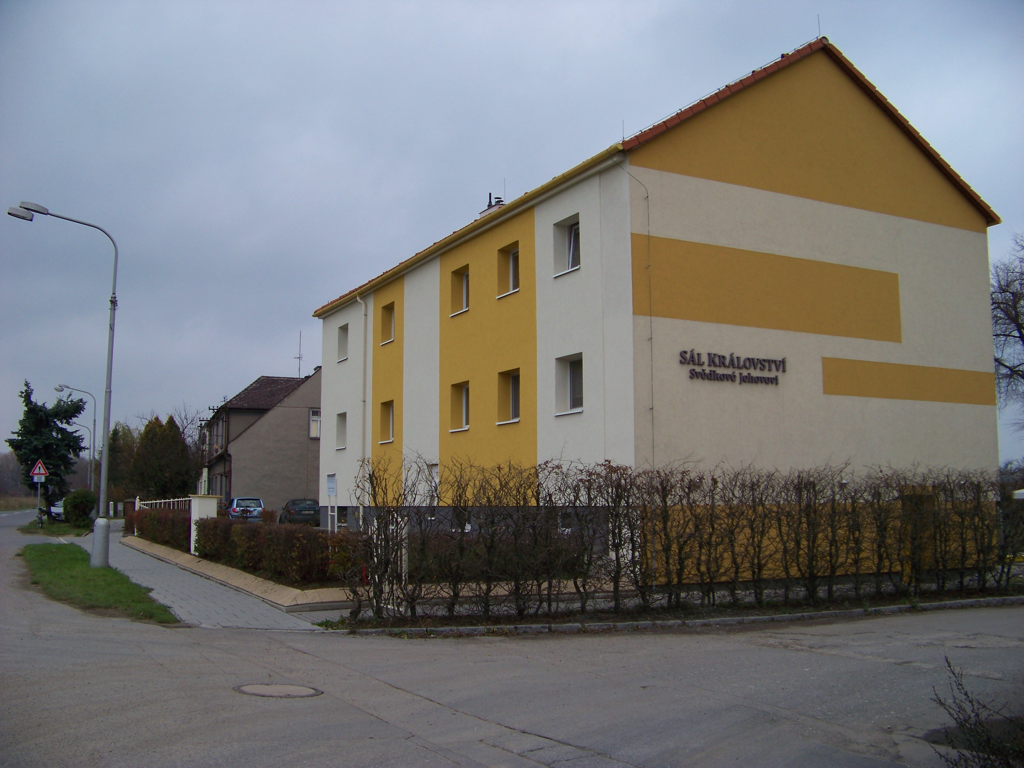 Olomouc-Řepčín, Olomouc District, Olomouc Region, Czech Republic. Křelovská 237/34, Kingdom Hall Olomouc-South.